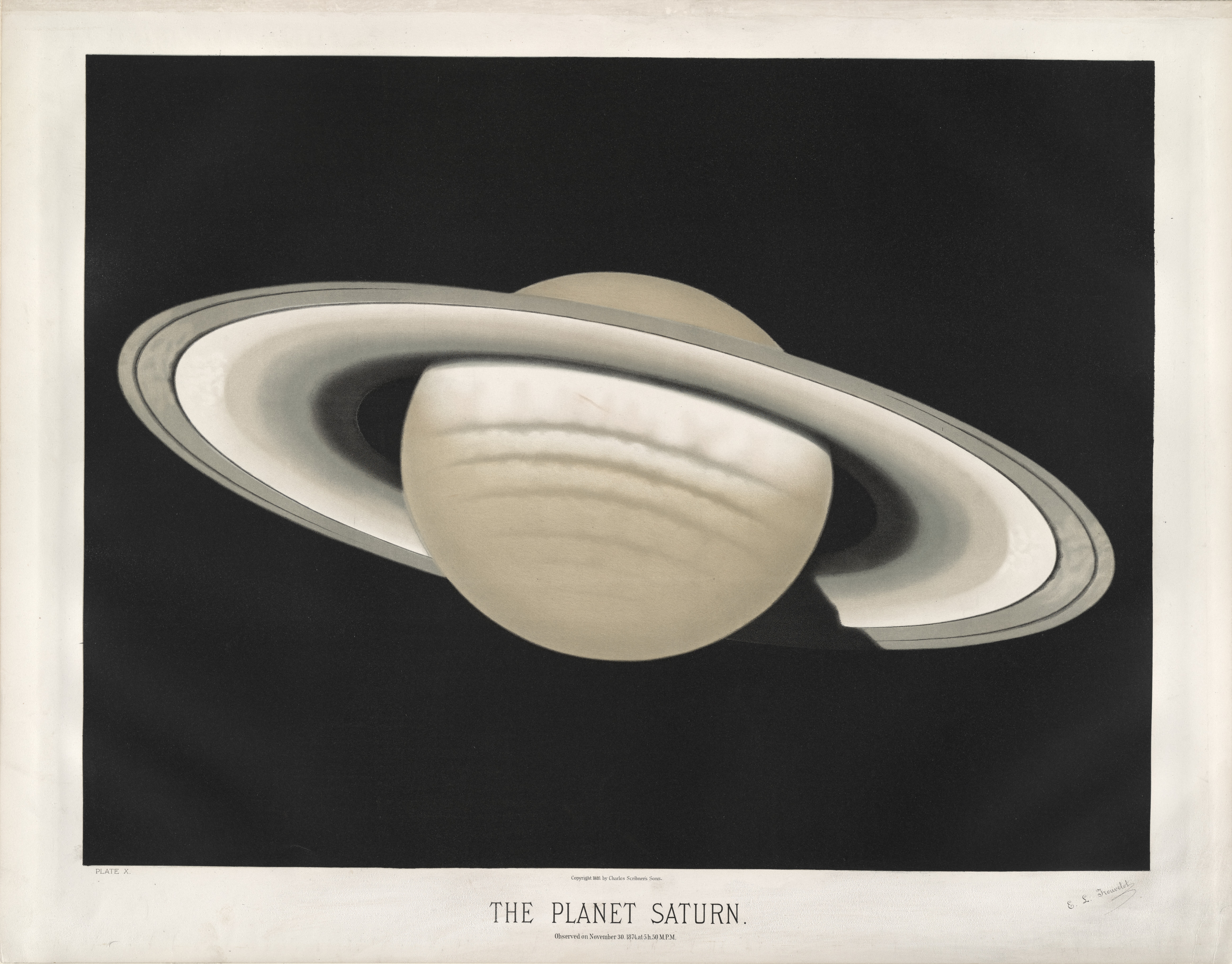 The planet Saturn. Observed on November 30, 1874, at 5h. 30m. P.M. (Plate X from The Trouvelot Astronomical Drawings 1881-1882)